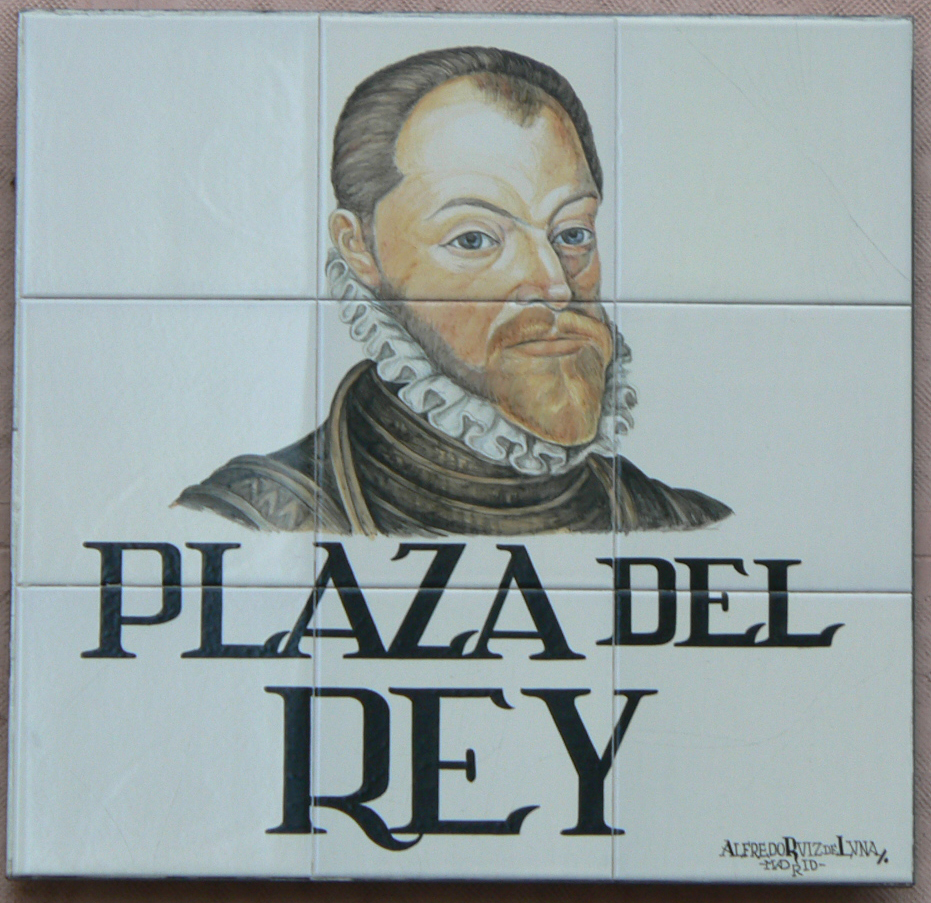 Sign of Plaza del Rey (square, Centro district) in Madrid (Spain).